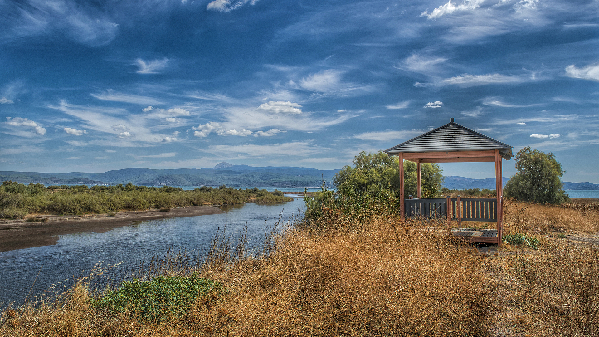 This is a photography of Natura 2000 protected area with ID GR4110004